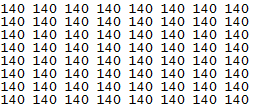 Its the matrix of the gray square